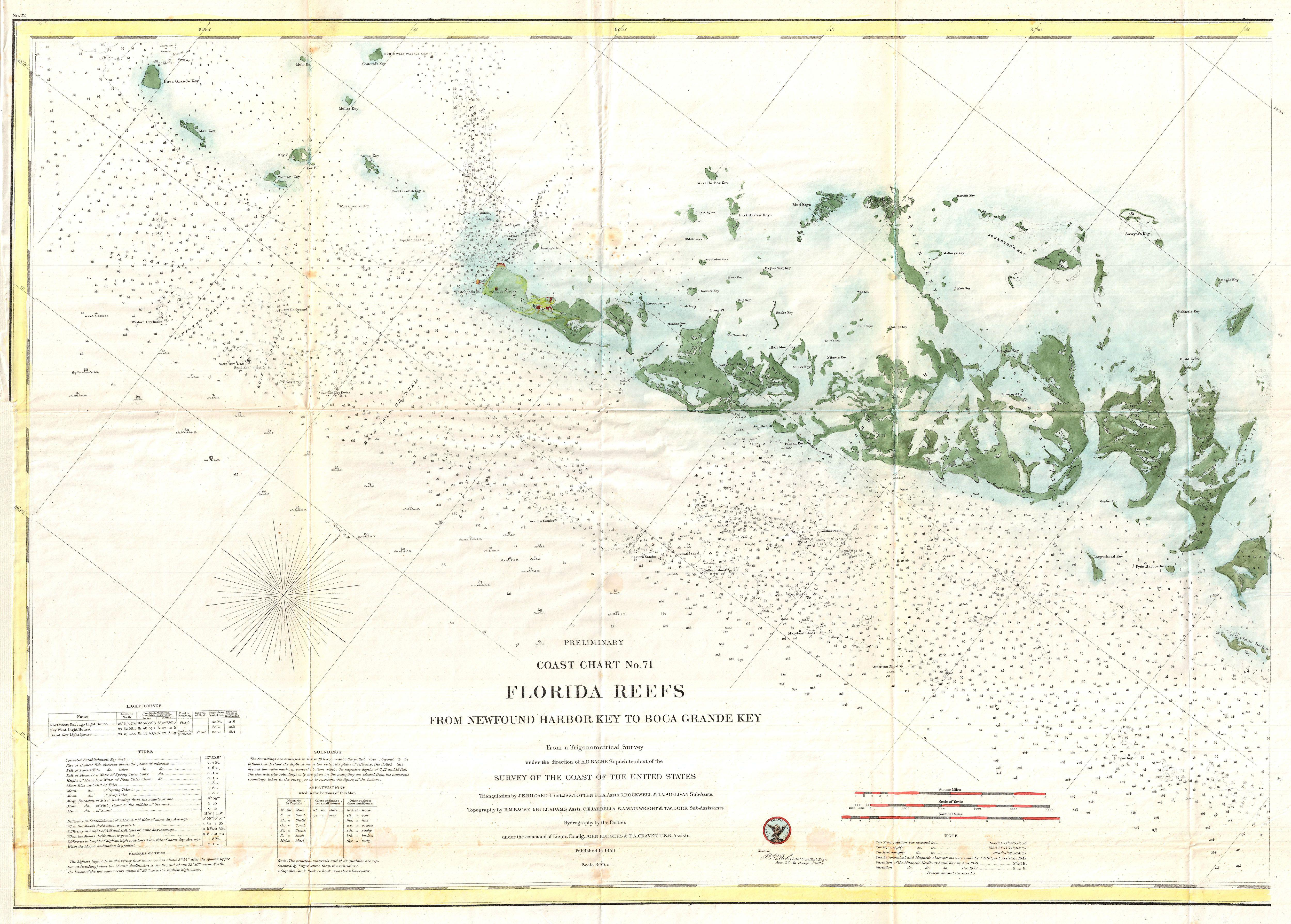 A very attractive example of the rare 1859 U.S. Coast Survey Map the western Florida Keys. Centered on Key West, this map covers from Ramrod Key in the east to Boca Grande Key in the west. All of the Islands are named but only Key West shows any inland development. There are countless depth soundings throughout and various channels and shoals are noted. The triangulation for this chart was completed by J. E. Hilgard, Jas. Totten, J. Rockwell, and J. A. Sullivan. The topography is the work of R. M Bache, L. Hull Adams, C. T. Jardella, S. A. Wainwright, and T. W. Door. The hydrography was accomplished by John Rodgers and T. A. Craven. The whole was completed under the direction of A. D. Bache, one of the most influential and prolific Superintendents of the U.S. Coast Survey. Published in the 1859 edition of the Superintendent’s Report to congress.